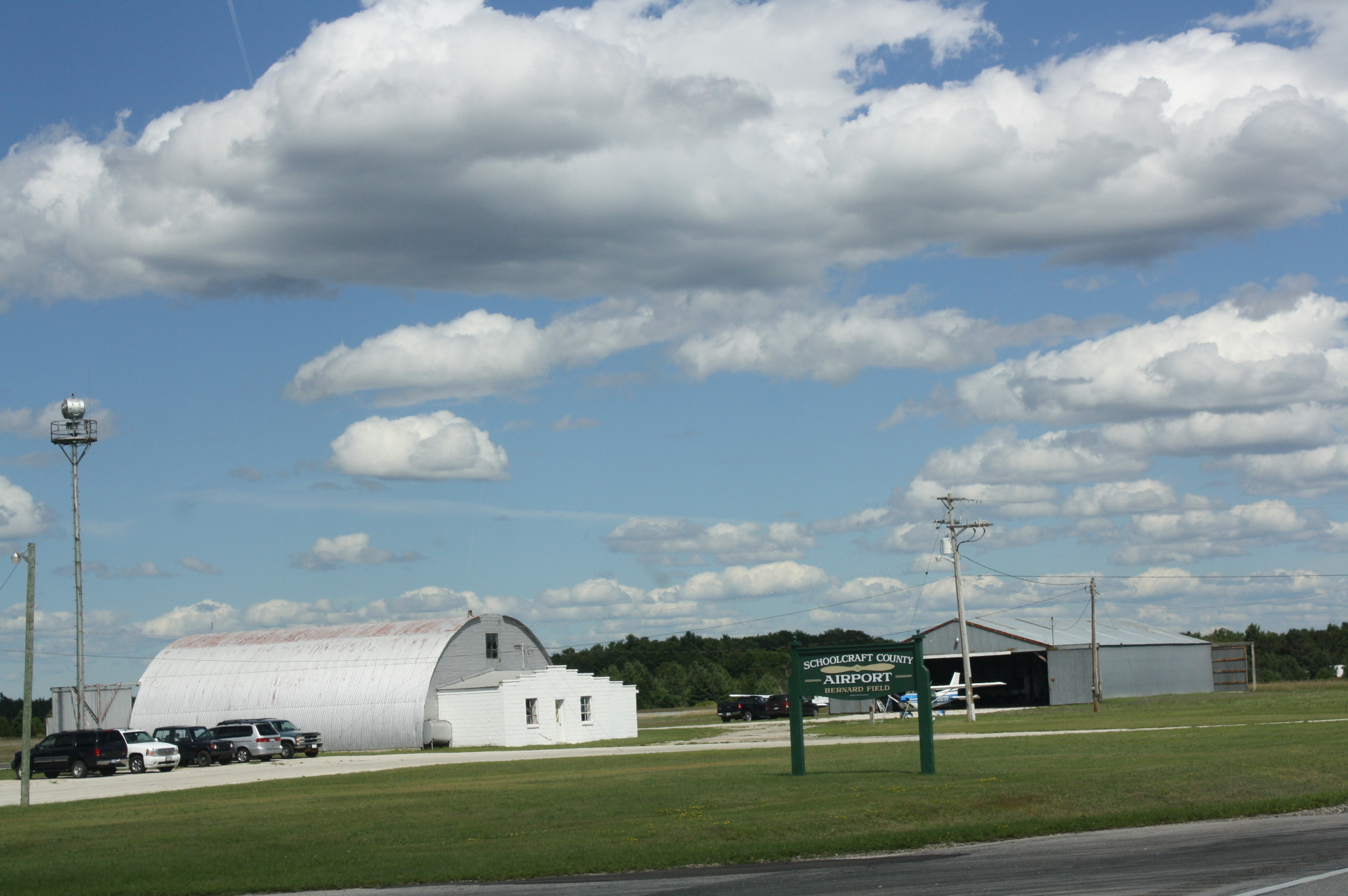 The Schoolcraft County Airport along U.S. Route 2 in Michigan.